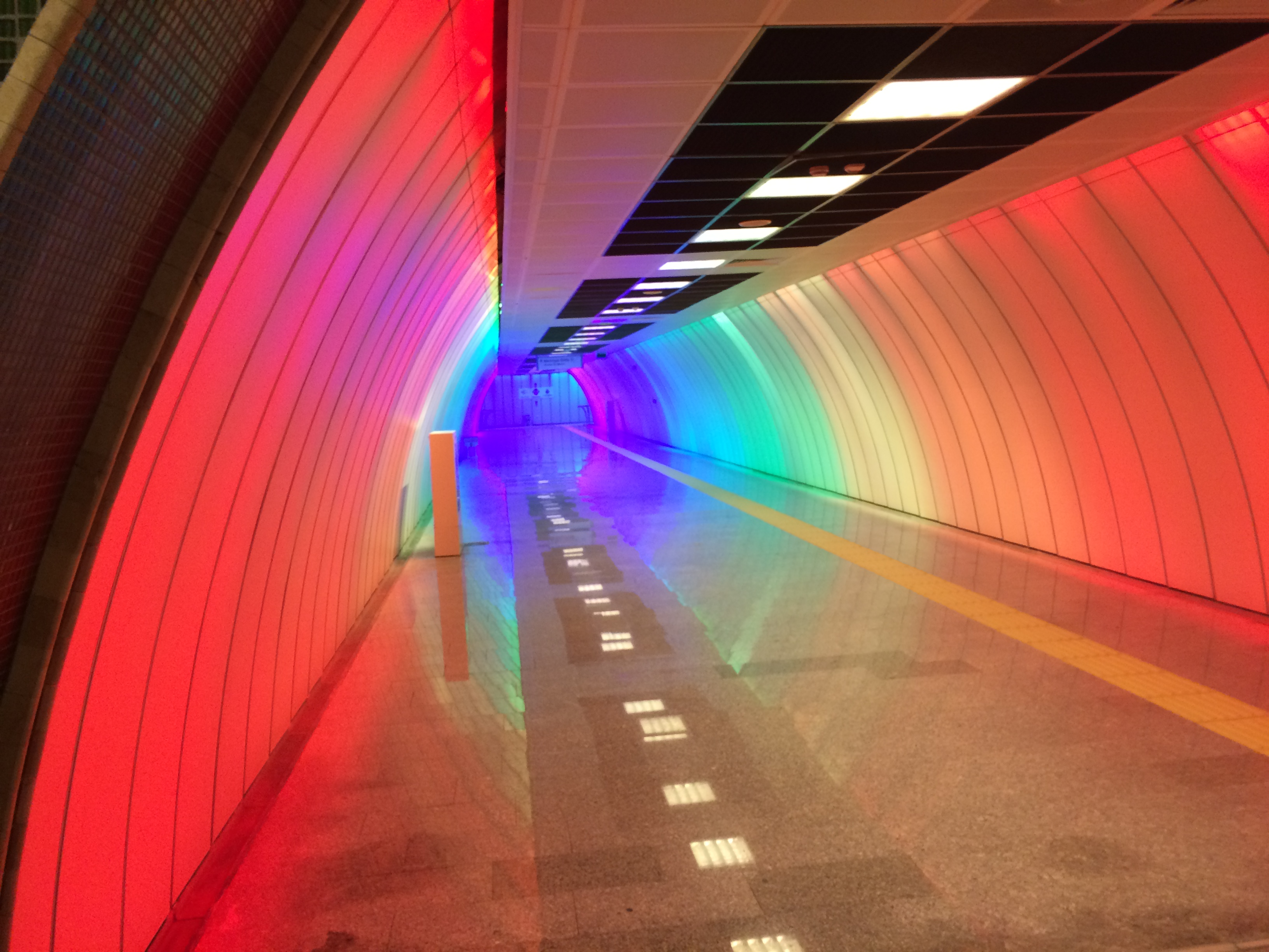 İstanbul Metro, M6 Levent – Hisarüstü/Boğaziçi Üniversitesi line, Nispetiye station r2